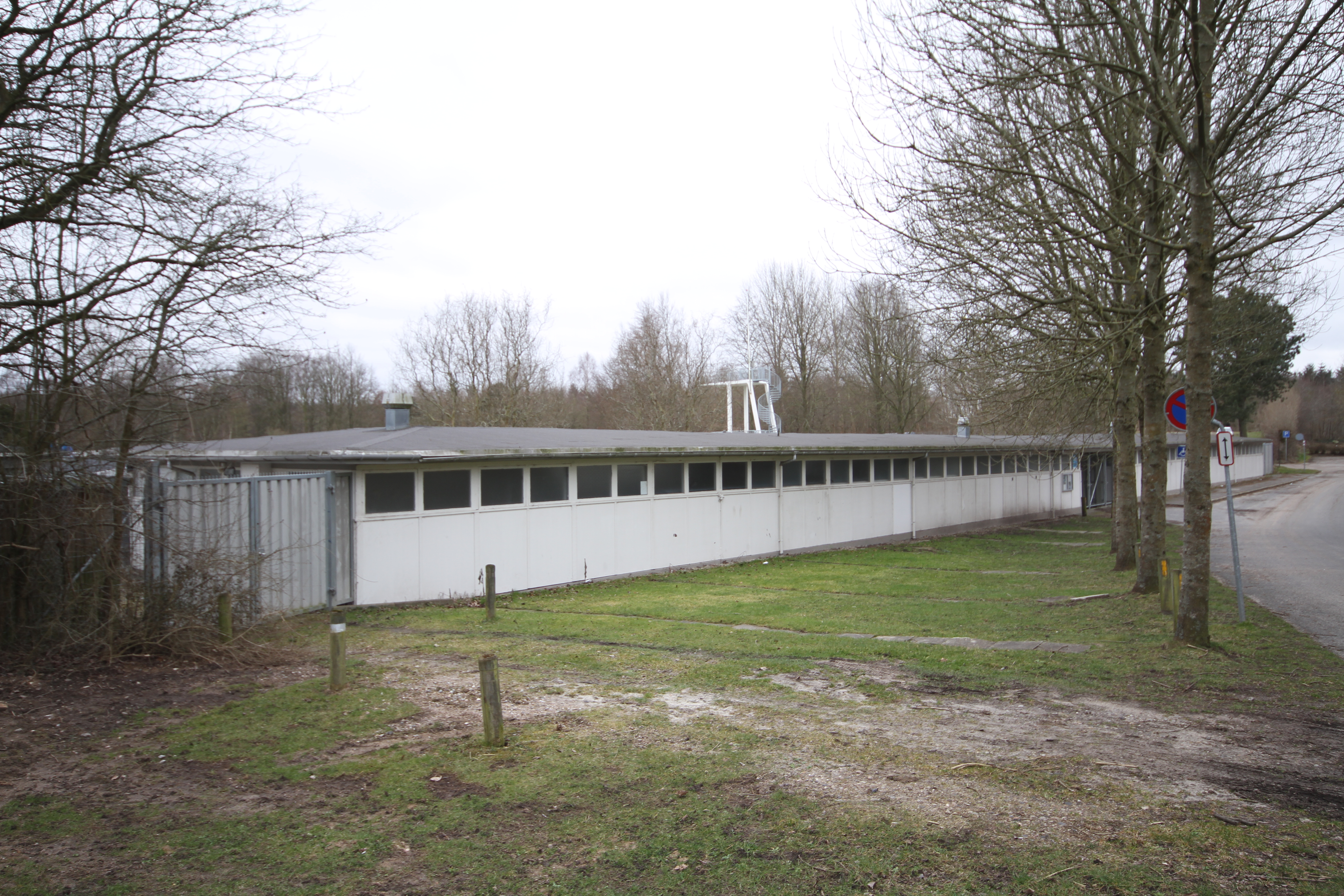 Odense Friluftsbad (a public open air bath/pool) as seen from Elsemindevej.